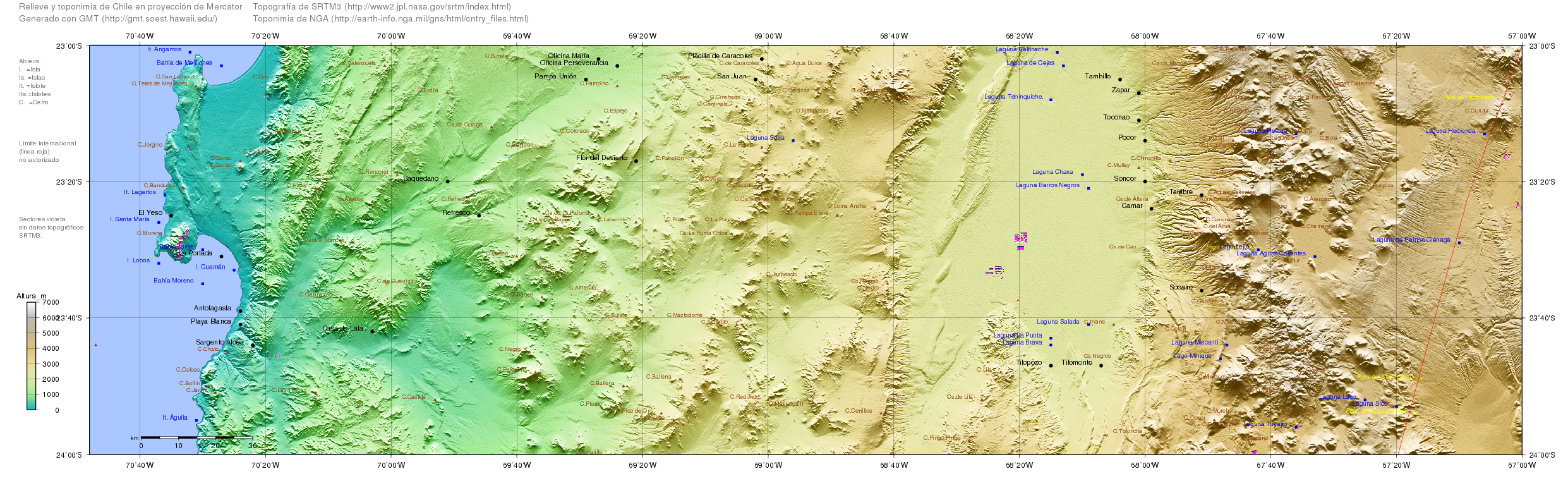 Map of Chile generated with GMT ( topography from SRTM ftp://e0srp01u.ecs.nasa.gov/srtm/version2/SRTM3/ and toponymy from